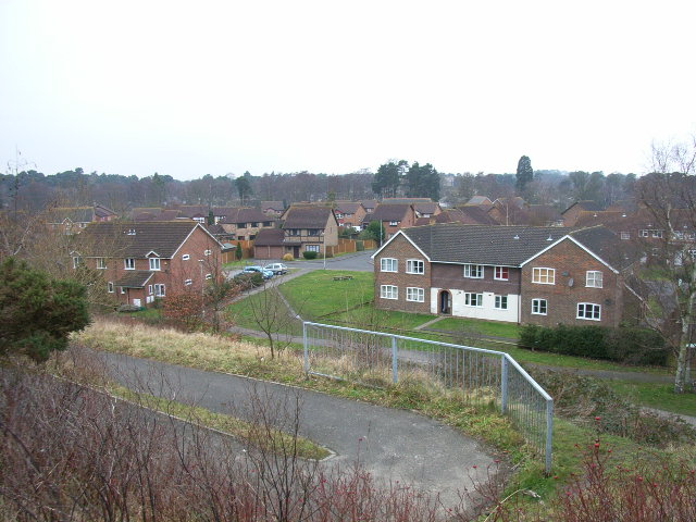 Martin's Heron, Bracknell. Looking southwest from the railway bridge. Strictly speaking, this is part of Winkfield not Bracknell.